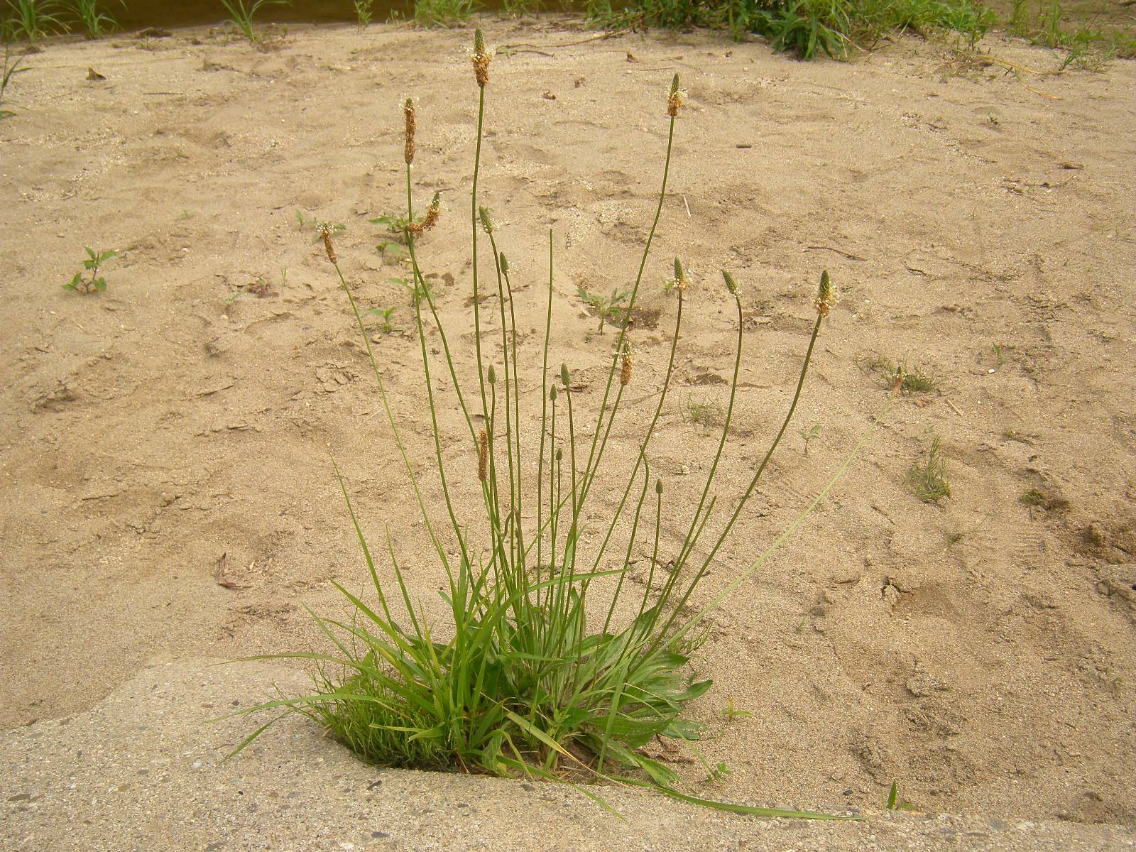 Ribwort Plantain (Plantago lanceolata). Dry riverbed of Hirose River. Aoba ward, Sendai, Miyagi prefecture, Japan.